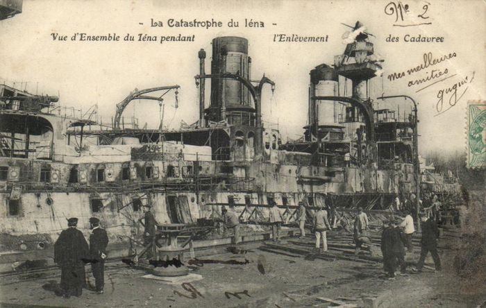 A French postcard showing the amidships section of the battleship Iéna after the explosion